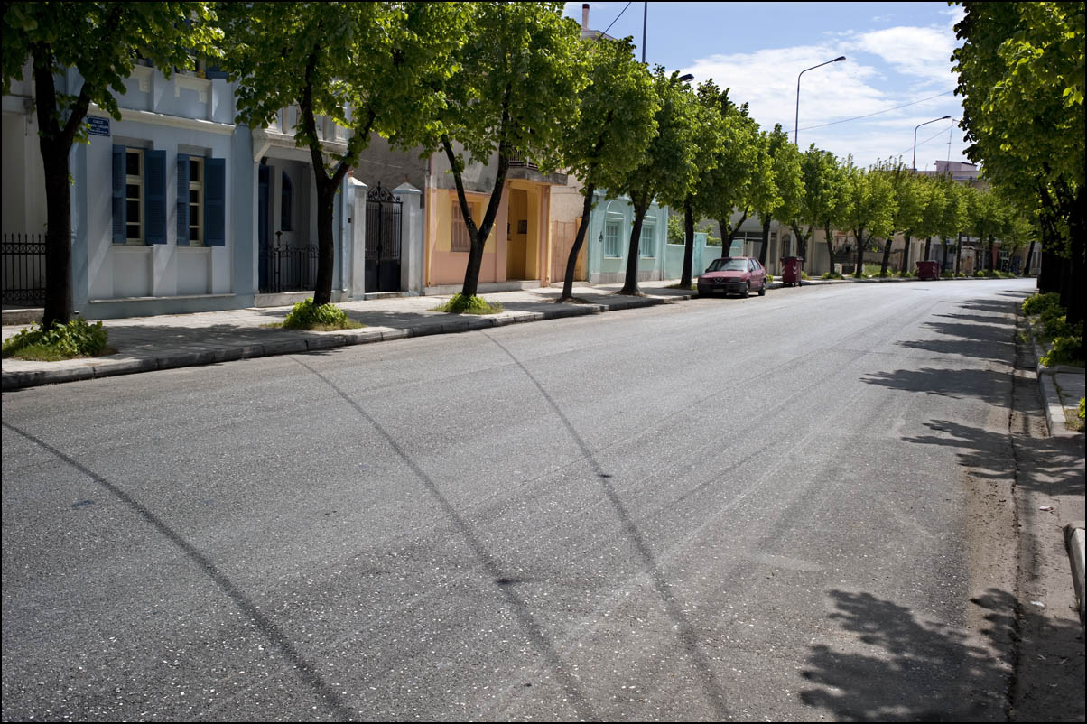 Komotini (Gümülcine), Greece. "Panagi Tsaldari" street (it is close to the train station).